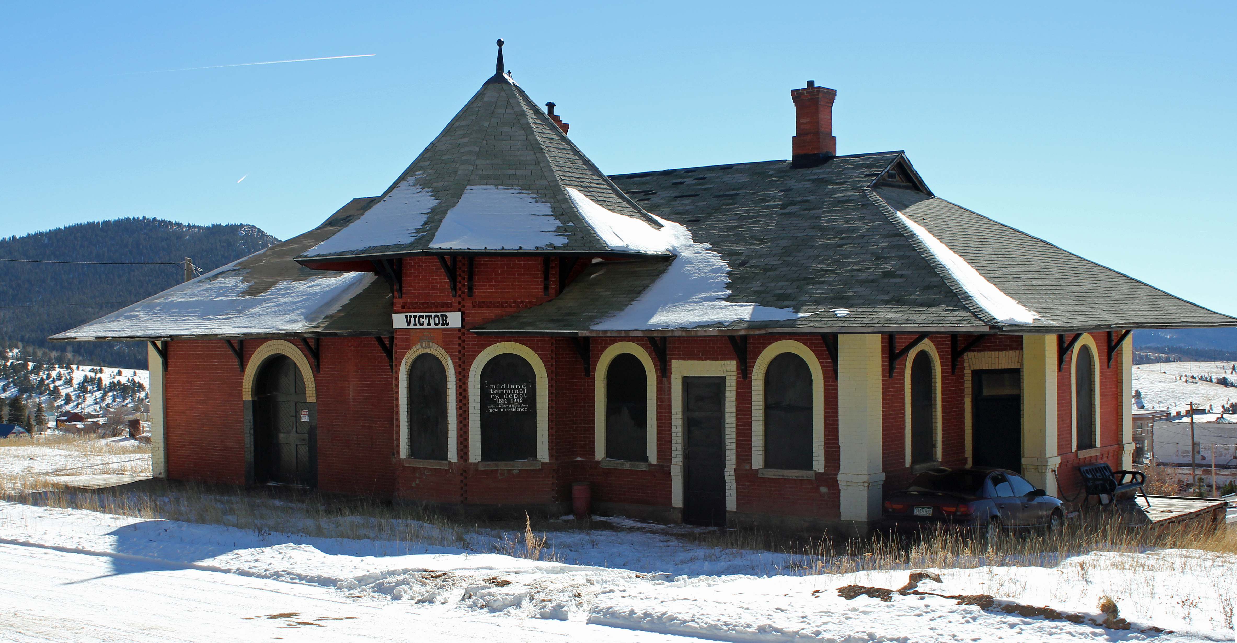 The Midland Terminal Railroad Depot, located on Granite Avenue in Victor, Colorado. The property is listed on the National Register of Historic Places.